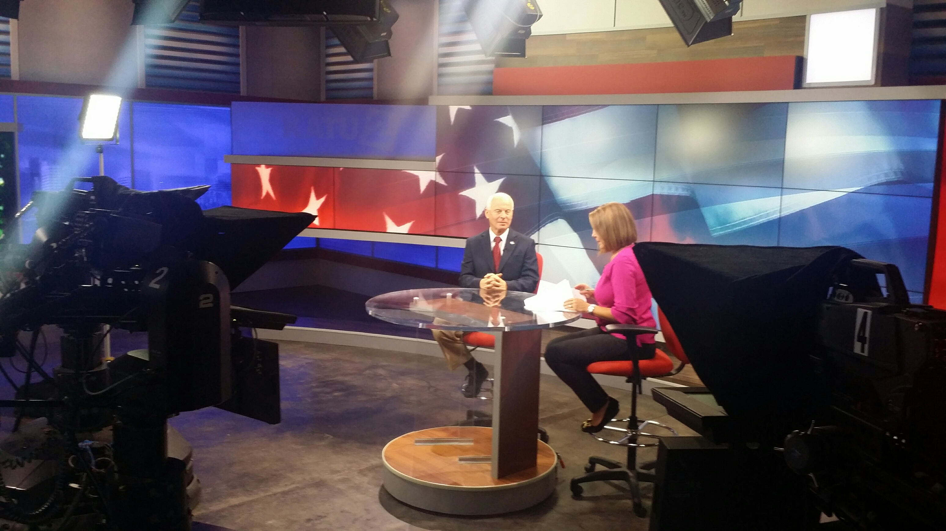 SOS Richardson being interviewed by Debra Knapp at KATU Channel 2 in Portland for "Your Voice Your Vote"